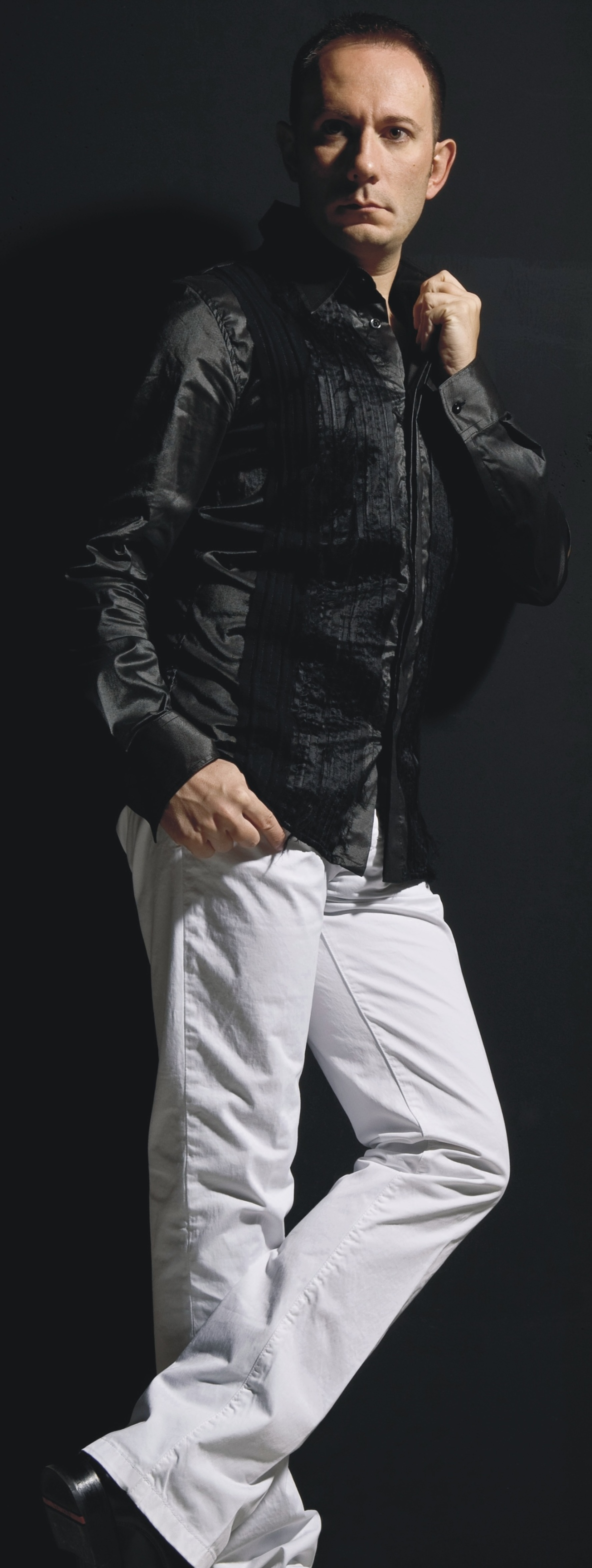 Bogdan Bacanu - Marimba Artist